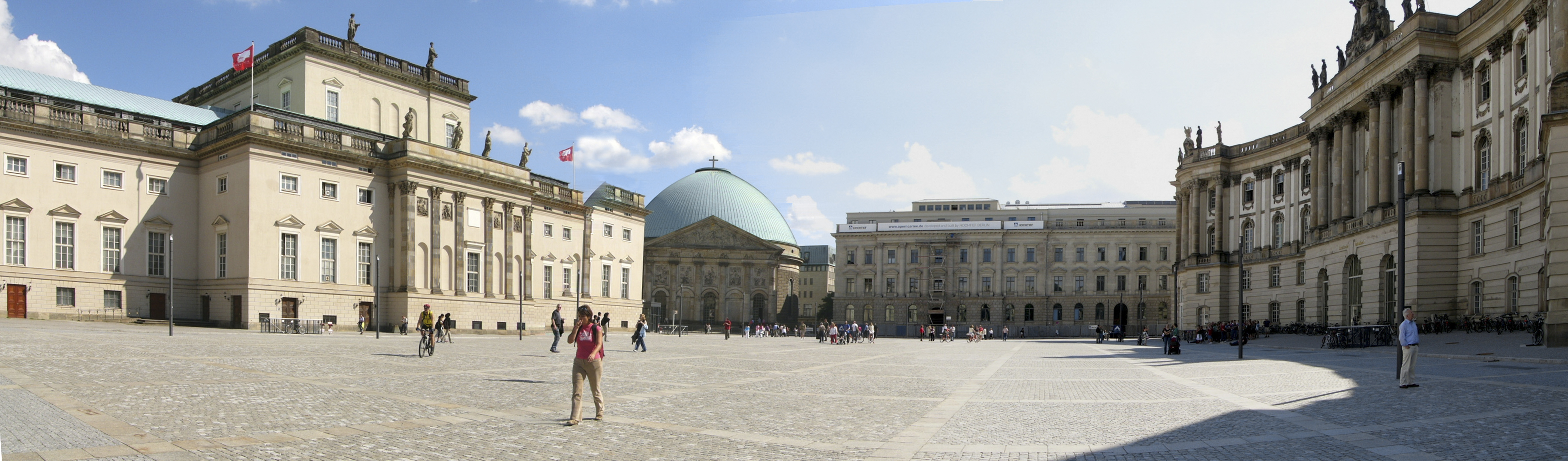 Bebelplatz in Berlin, Germany